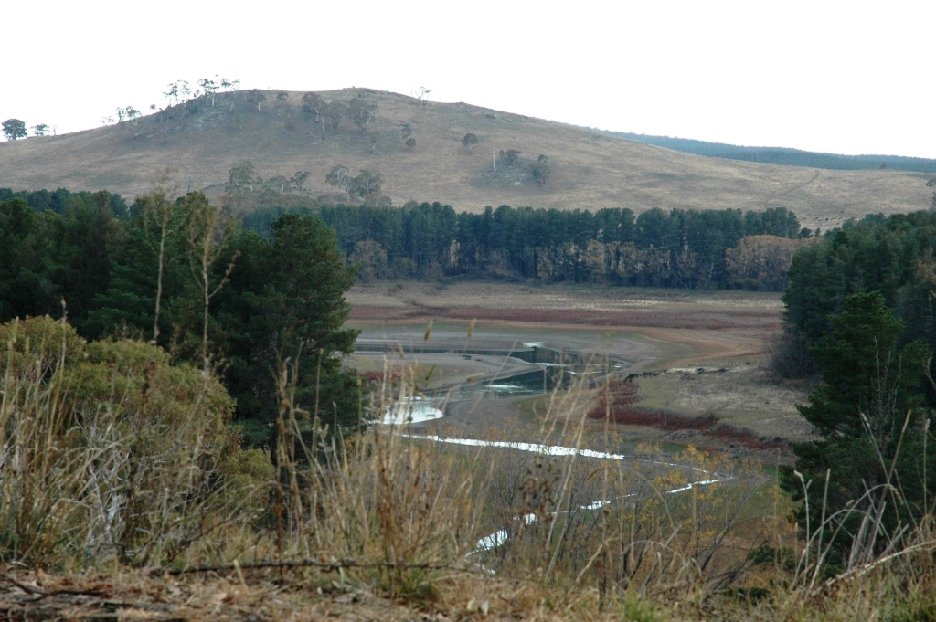 Suma Park Reservoir viewed from Icley Road to the east of Orange, New South Wales in May 2008. Ajayvius (talk) 05:12, 18 August 2008 (UTC)